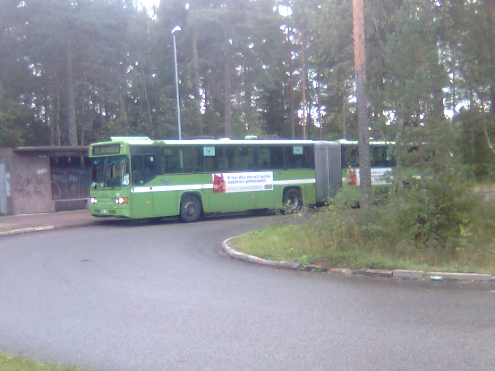 Gamla Uppsala Buss (#631): Scania CN113ALB articulated bus in Uppsala, Sweden.